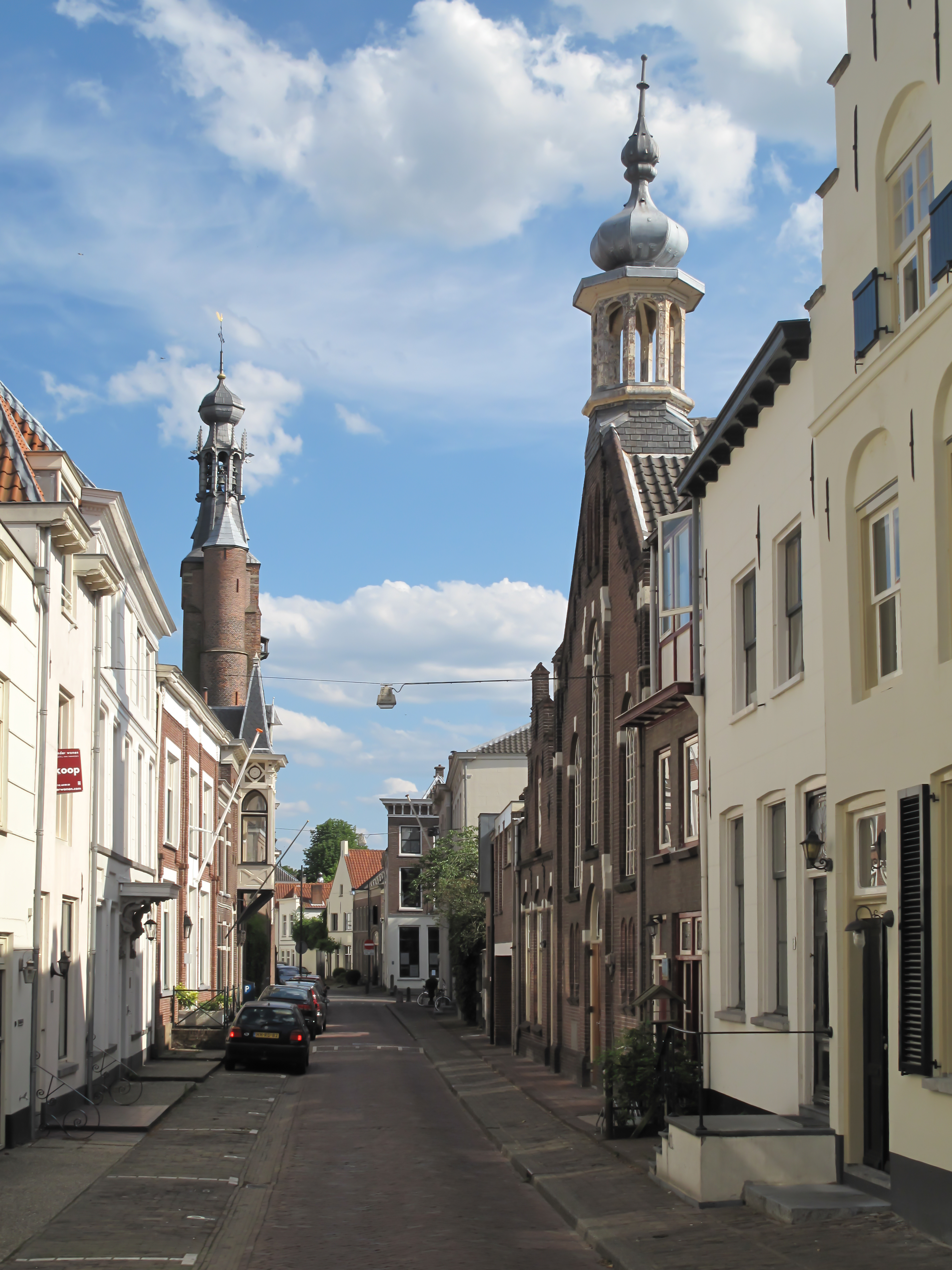 Zaltbommel, church: Eben-Haëzerkerk and tower